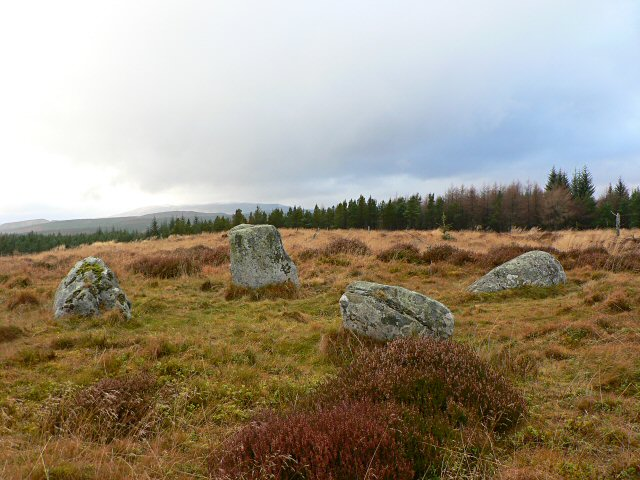 Stone Circle This circle has just four evenly spaced stones. The forest shown on the OS 1:50000 map has been felled, so there are clear views in all directions.